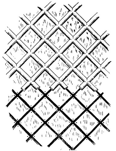 From the original book: "In the cities, the outside walls of more durable structures, such as warehouses, are not infrequently covered with square tiles, a board wall being first made, to which the tiles are secured by being nailed at their corners. These may be placed in diagonal or horizontal rows, — in either case an interspace of a quarter of an inch being left between the tiles, and the seams closed with white plaster, spreading on each side to the width of an inch or more, and finished with a rounded surface. This work is done in a very tasteful and artistic manner, and the effect of the dark-gray tiles crossed by these white bars of plaster is very striking (fig. 25)."